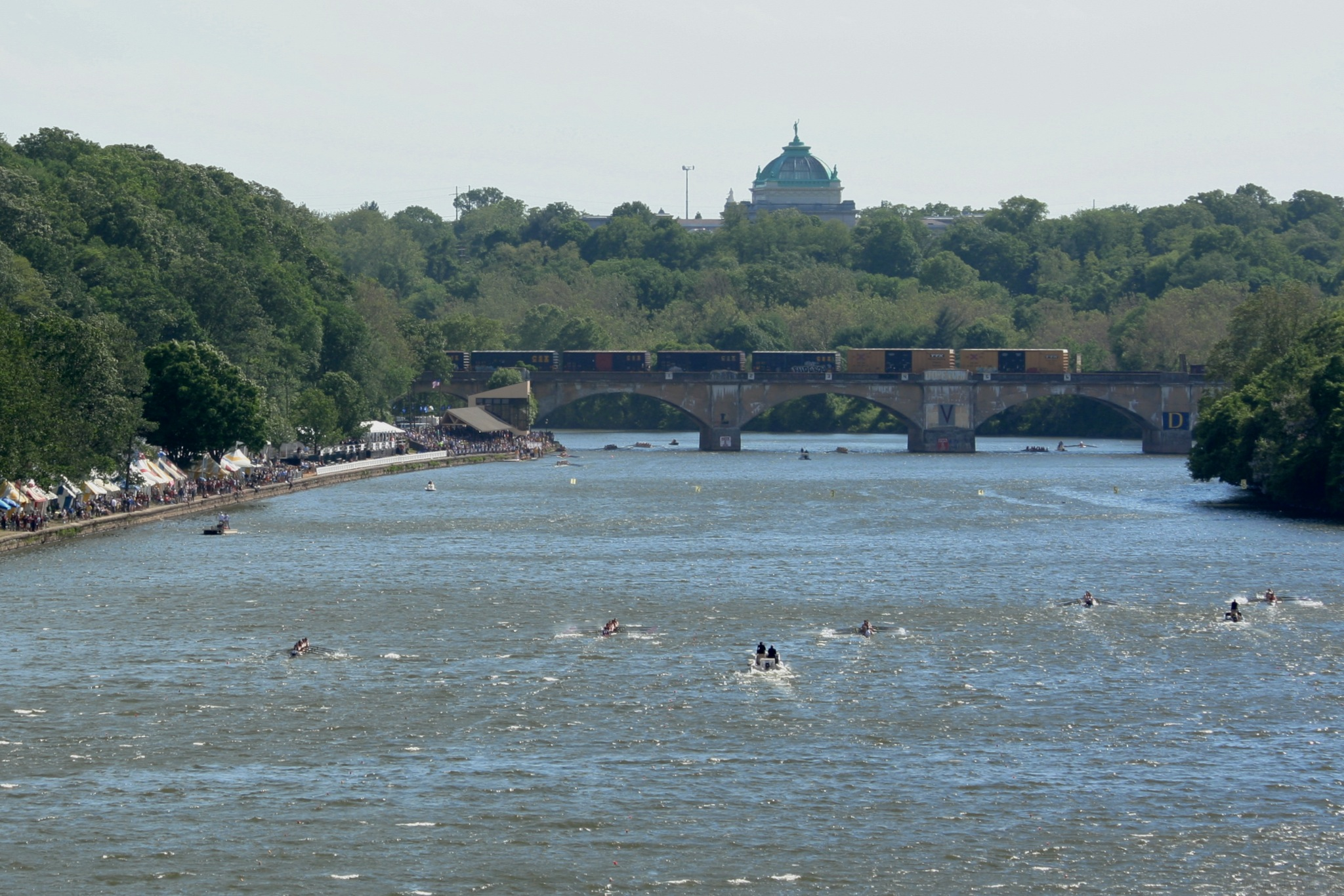 Event #164 Men's Varsity Heavyweight Eight Open Second Final